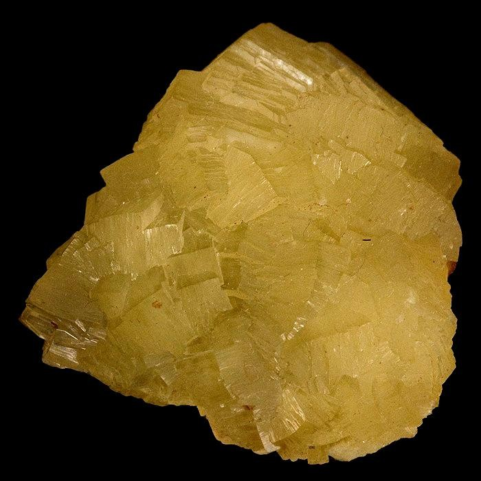 Brucite Locality: N'Chwaning Mines, Kuruman, Kalahari manganese fields, Northern Cape Province, South Africa (Locality at ) Size: 3.4 x 3.4 x 1.6 cm. Brucite is definitely one of the lesser known species from the famous N’Chwaning Mines. Brucite is an uncommon magnesium hydroxide. Sharp, lustrous, translucent, trigonal, pastel-yellow brucite crystals form an excellent, solid plate. Uncommon in this color and quality. Ex. Ken Hollmann Collection.